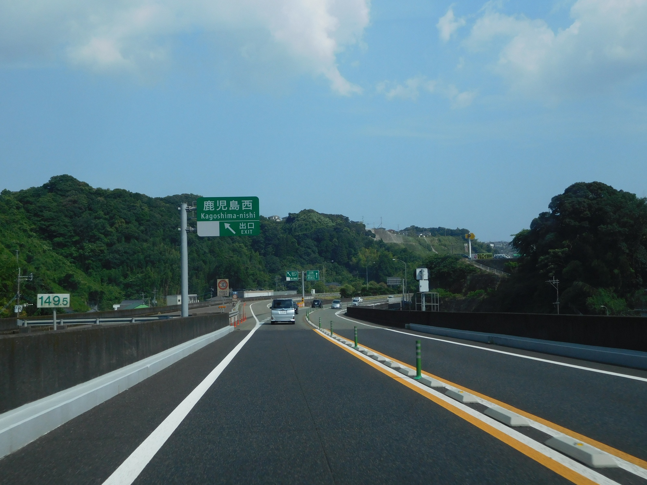 The Kagoshima-Nishi (West Kagoshima) Interchange of Minami-Kyushu Expressway in Kagoshima City, Kagoshima Prefecture, Japan.